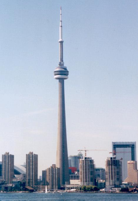 Picture of CN Tower from lake